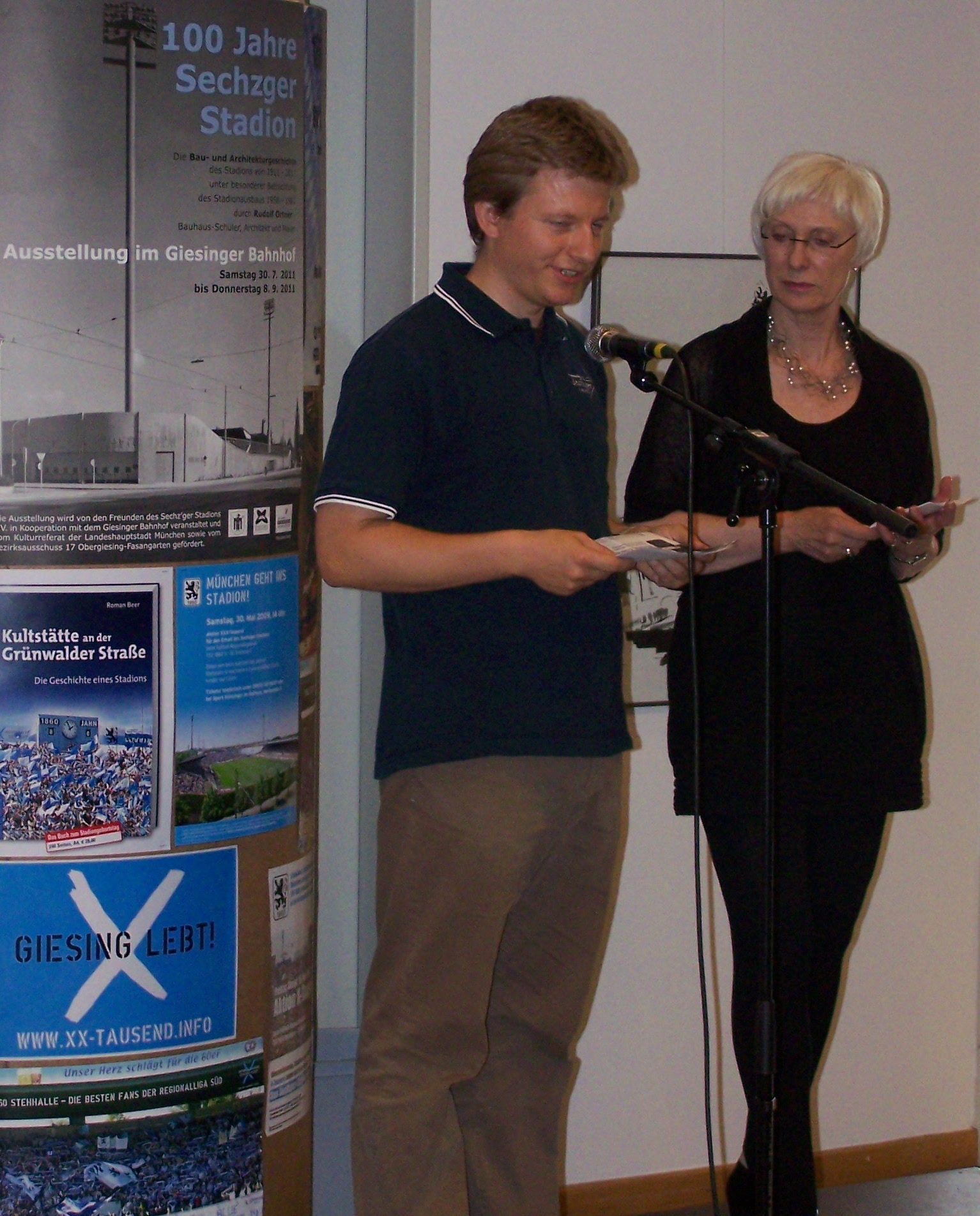 Raomen Beer, Monika Ortner-Bach